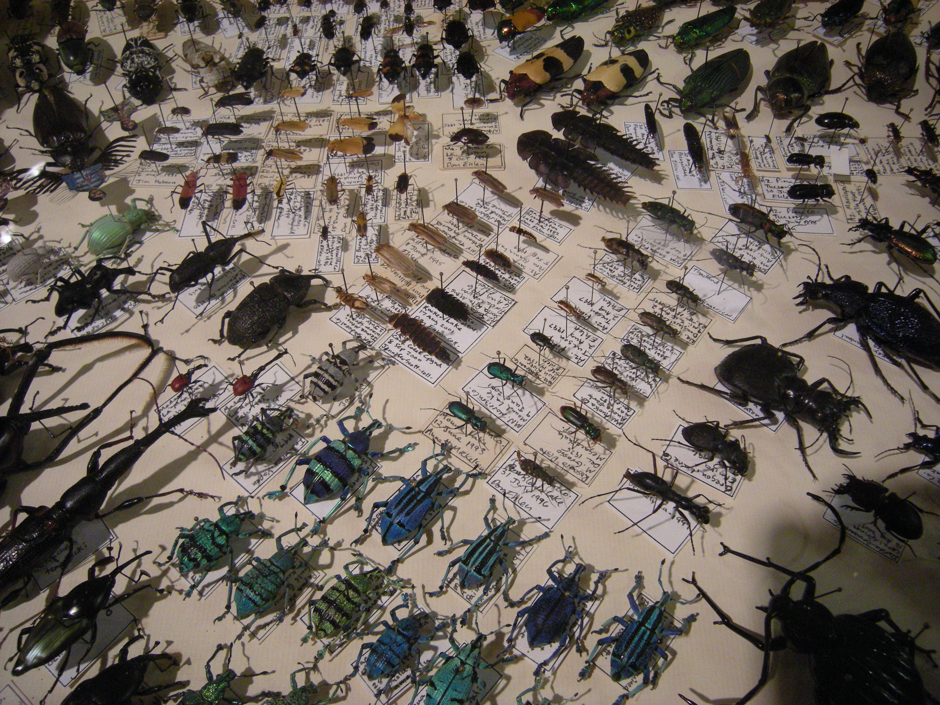 Unidentified insects. Part of Don Ehlen's Insect Safari collection on display at the Hiawatha Artists Lofts, Seattle, Washington, during a "Bugs and Beer" night.